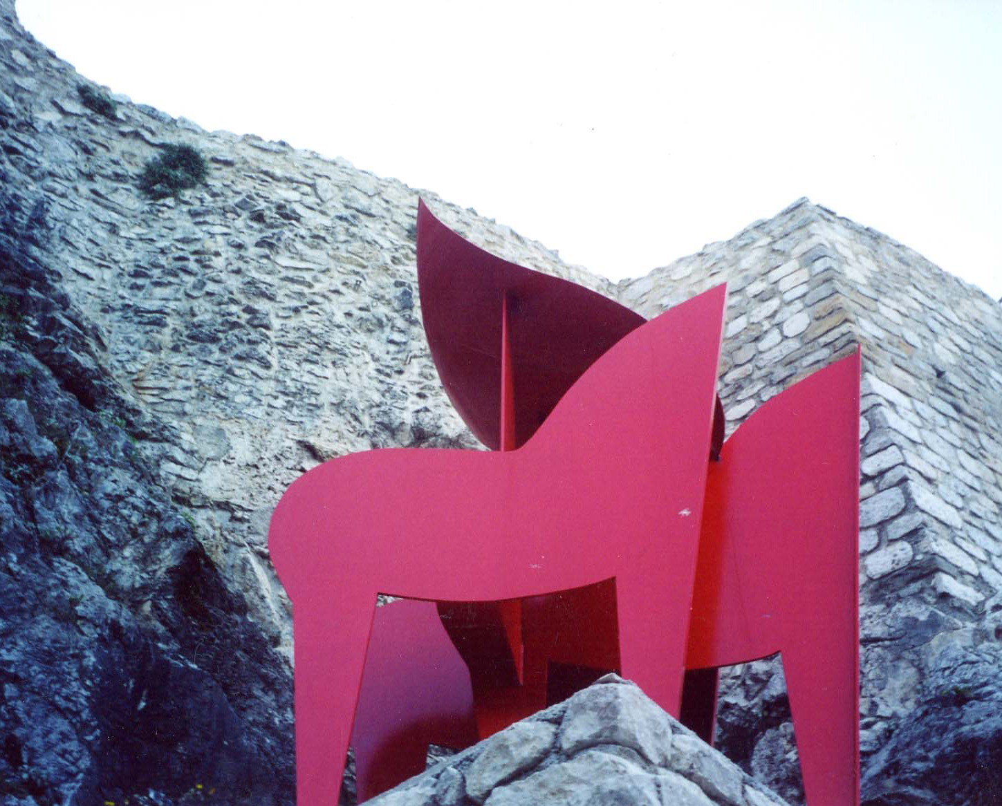 I Cavalieri di Balvano (2002), scultura in ferro policromo (400x200x350), Balvano